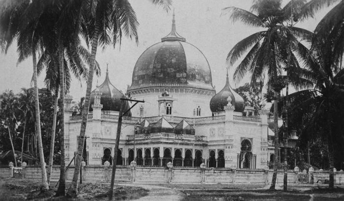 The Azizi Mosque, Tanjungpura